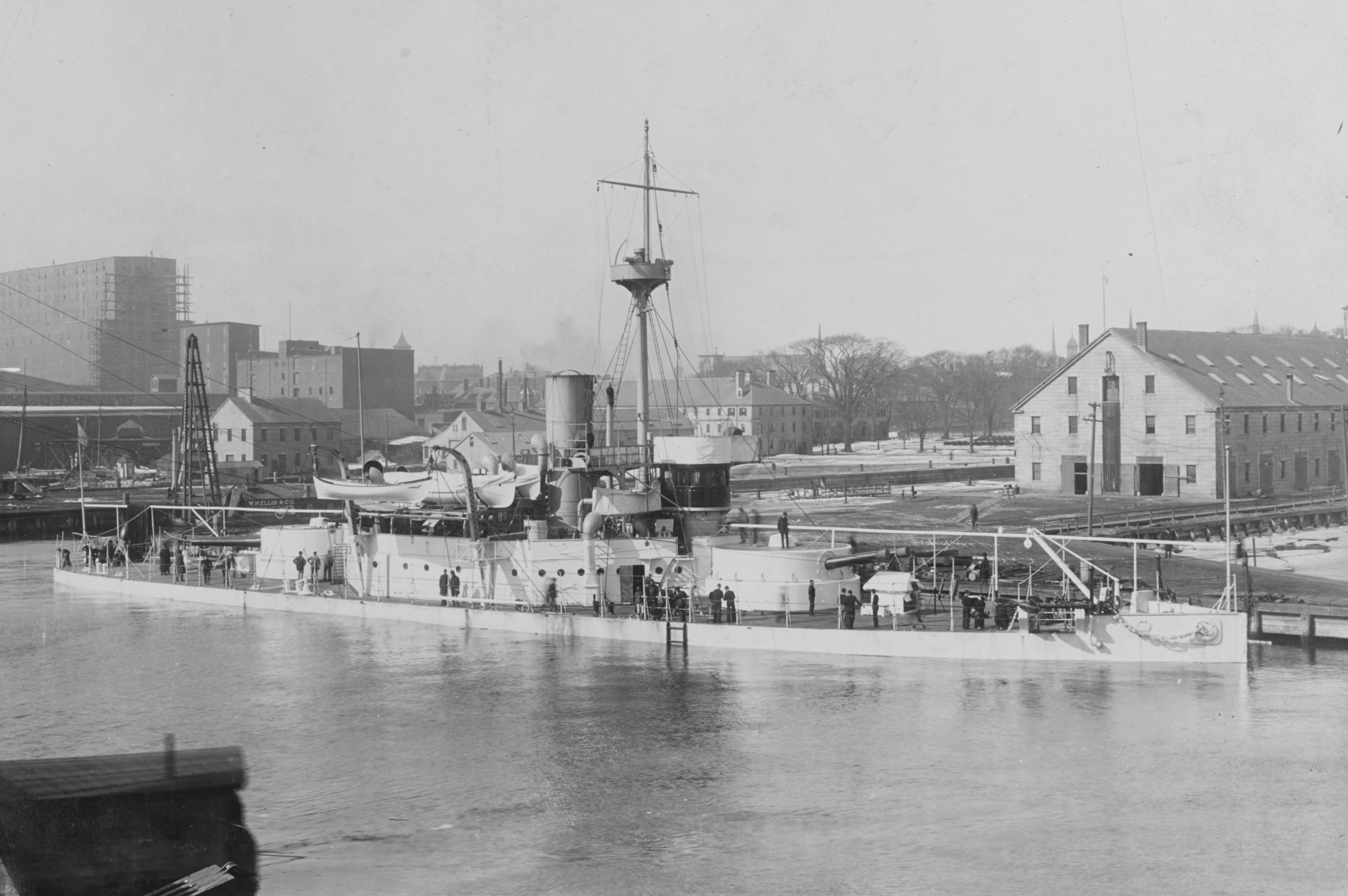 USS Amphitrite (BM-2) at the Boston Navy Yard, Charlestown, Massachusetts, circa 1890s.